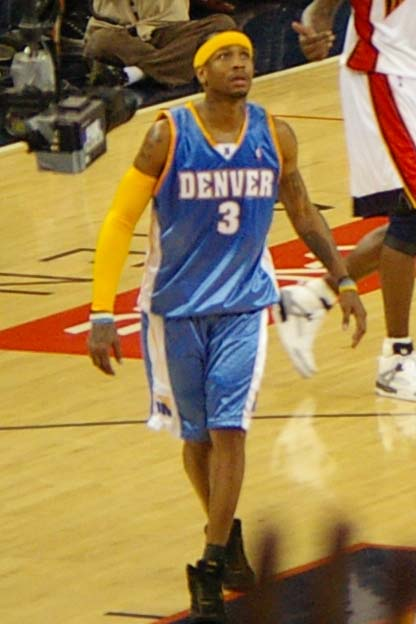 This file has been extracted from another file: LiveDie By the 3.jpg